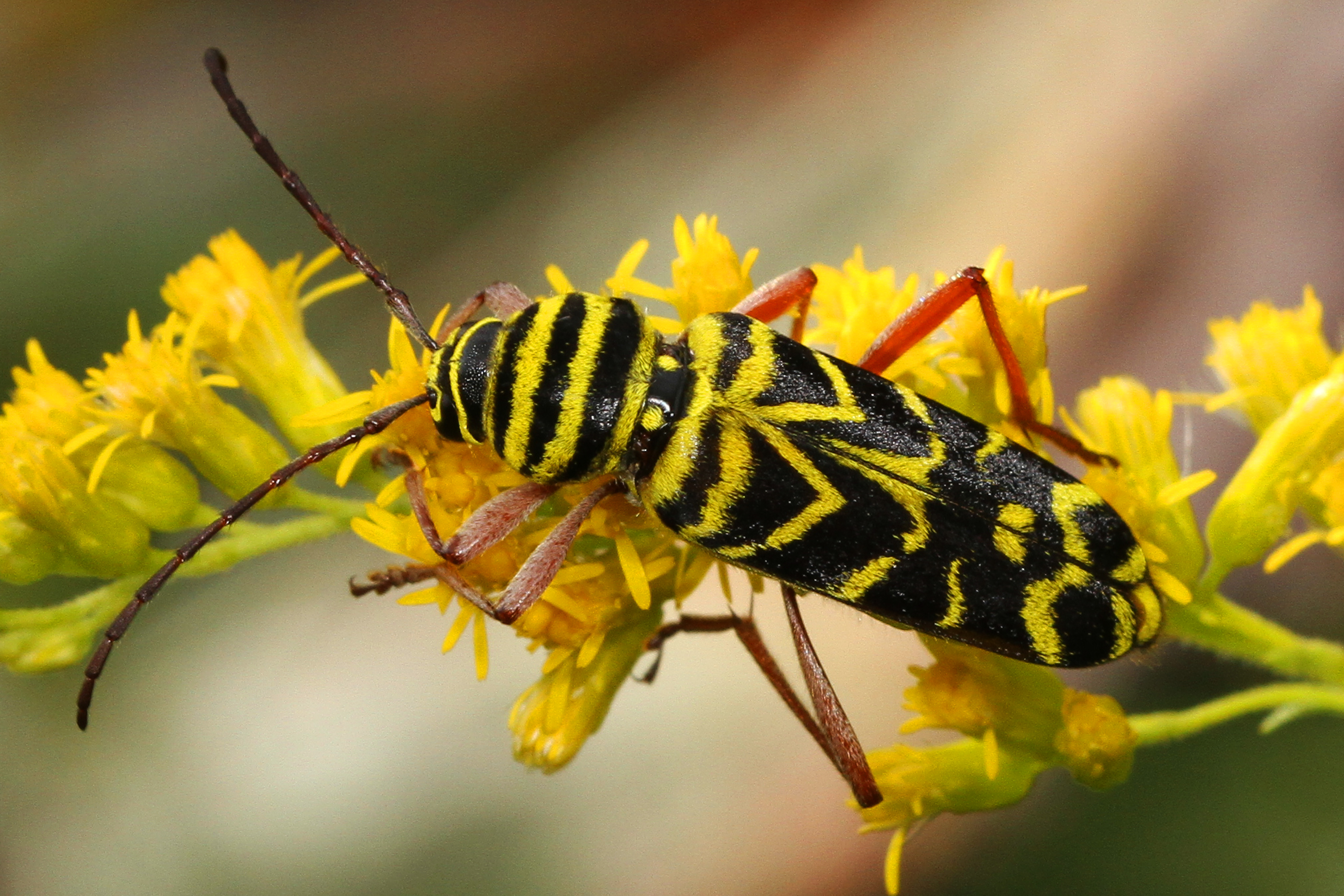 Locust Borer - Megacyllene robiniae, Julie Metz Wetlands, Woodbridge, Virginia.